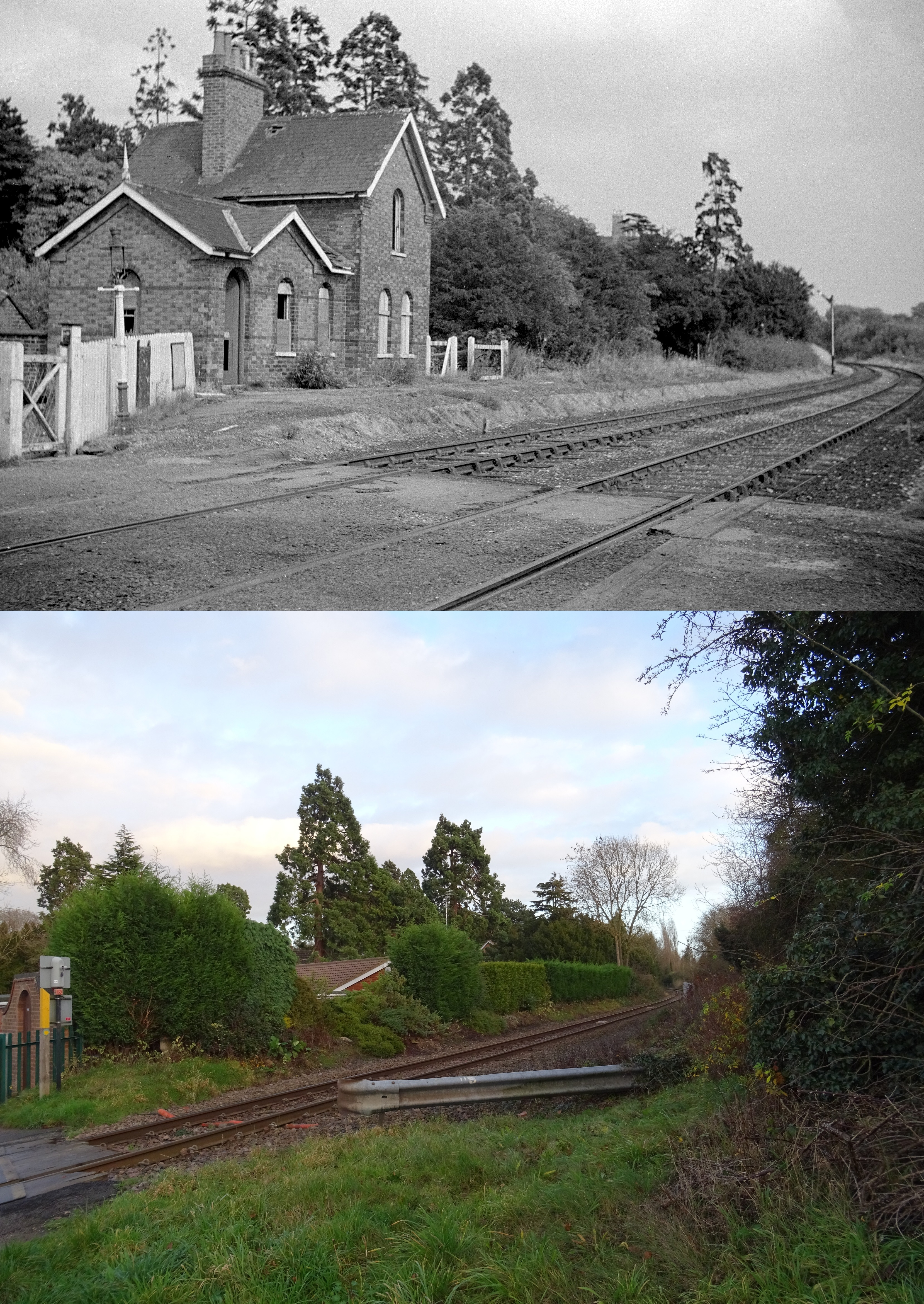 The site of the closed Kirby Muxloe station, in 1967 and 2018